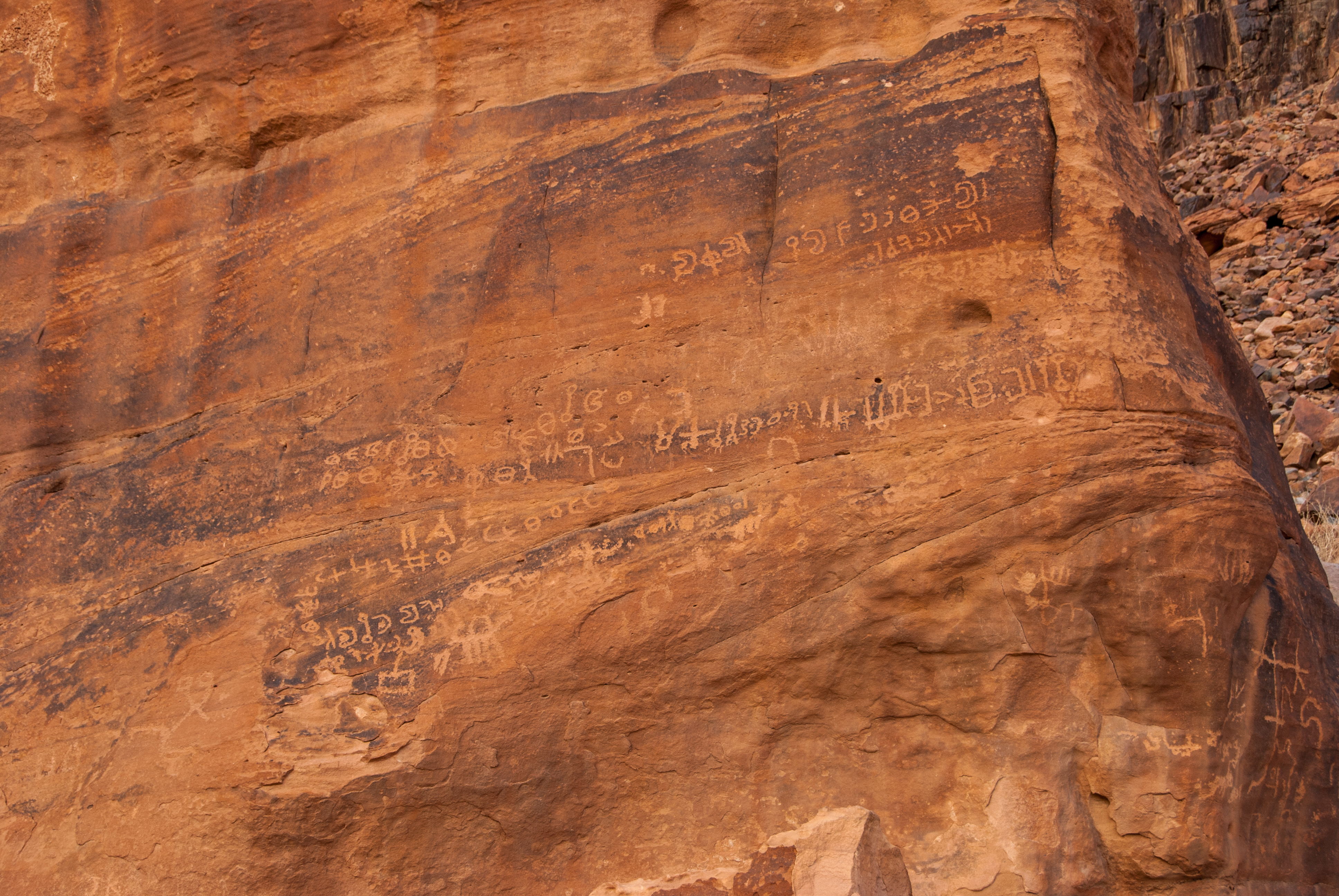 Ancient Thamudic inscriptions on rock in Wadi Rum, Jordan